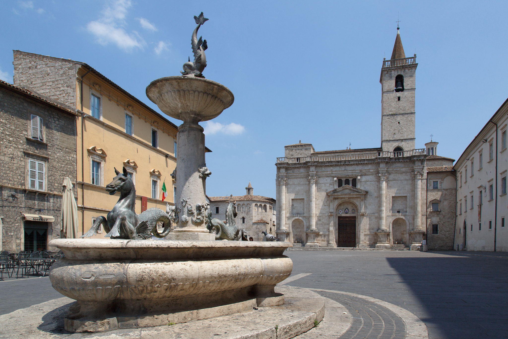 500px provided description: Piazza Arringo, also known as the piazza dell'Arengo, the oldest monumental piazza in the city of Ascoli Piceno, Italy. [#Italy ,#Cathedral ,#Fountain ,#Ascoli Piceno ,#Piazza Arringo ,#Saint Emygdius]